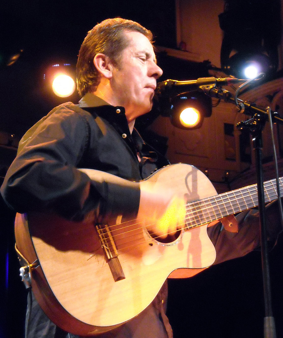 Irish singer Luka Bloom performing one of his songs in Paradiso, Amsterdam.